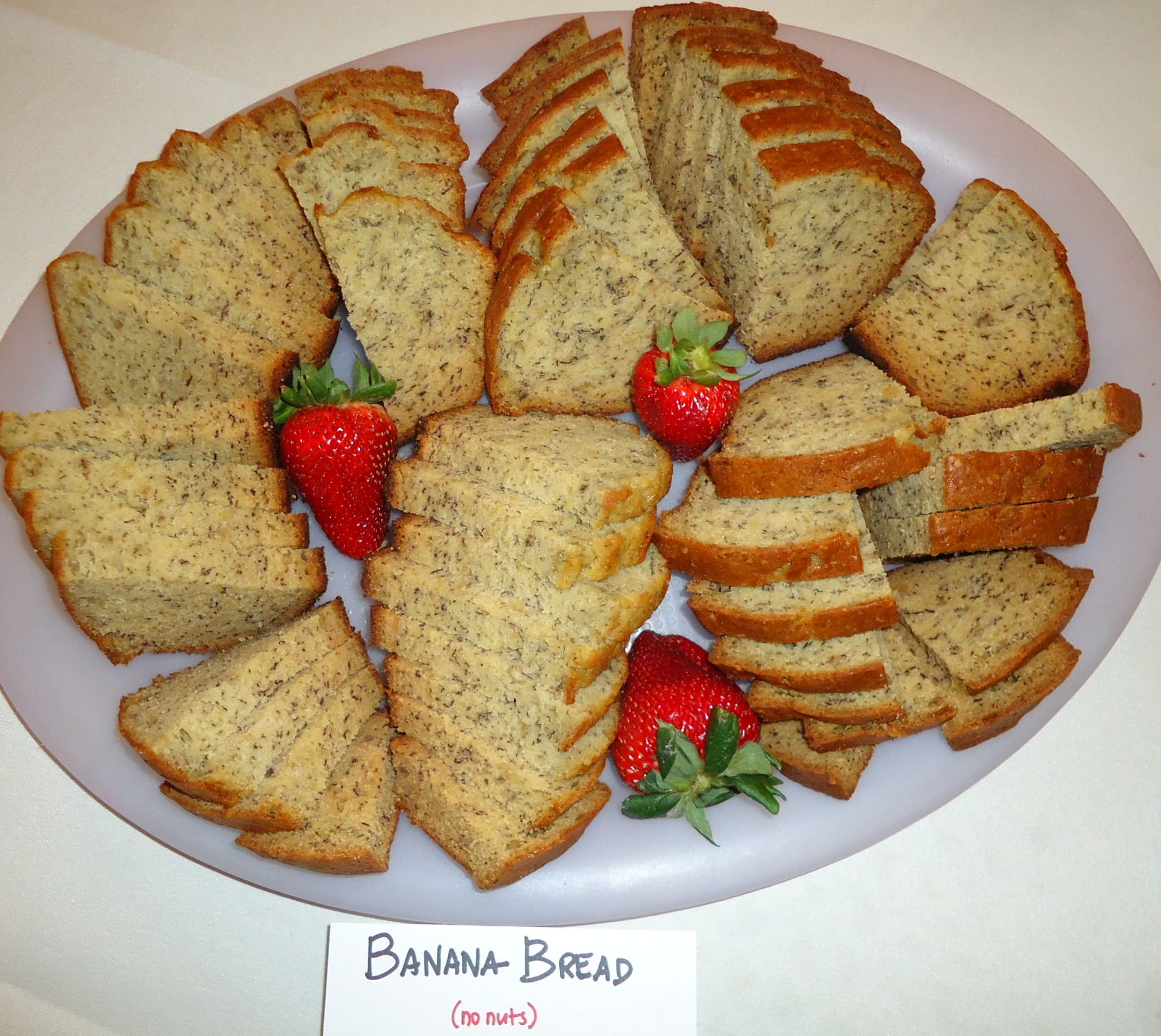 Banana bread without nuts plus strawberries